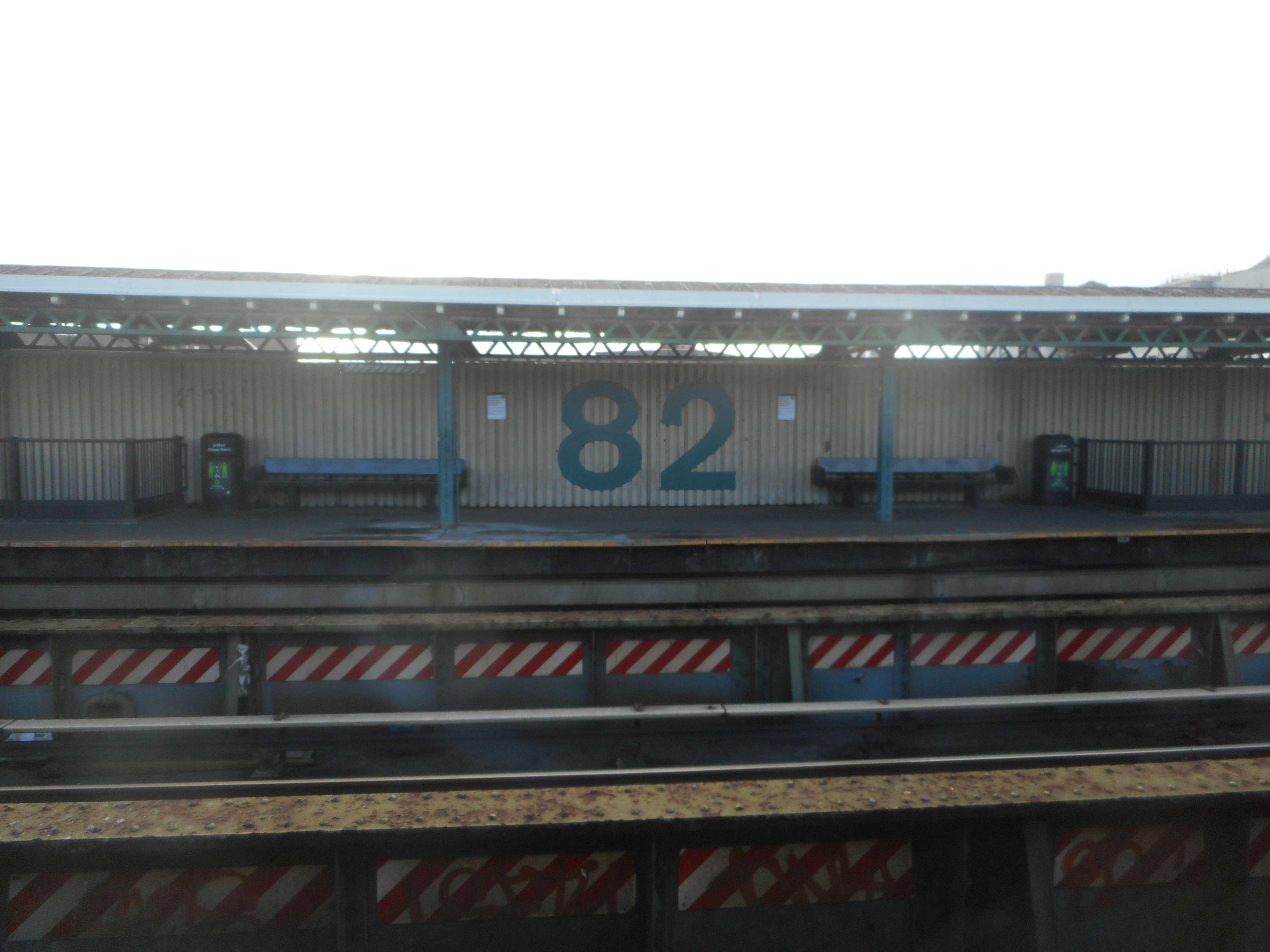 One of the enormous "82s" along the side panel of the Main Street-bound platform of 82nd Street – Jackson Heights elevated railway station on the IRT Flushing Line in the Jackson Heights section of Queens, New York City. Taken from the Hudson Yards-bound platform because the Main Street-bound platform was closed for reconstruction, among others on the Flushing Line on the weekends.